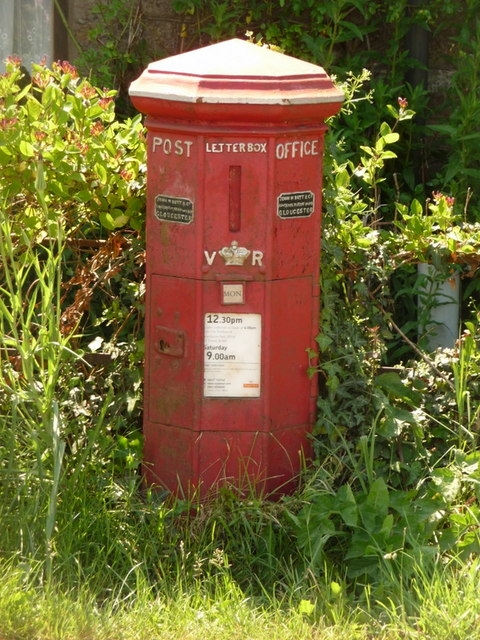 Holwell: postbox № DT9 4, Barnes Cross